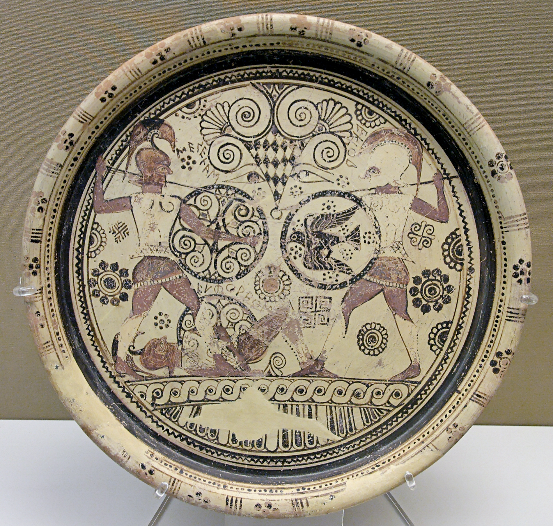 Menelaos and Hector fighting over the body of Euphorbos. Middle Wild Goat style.